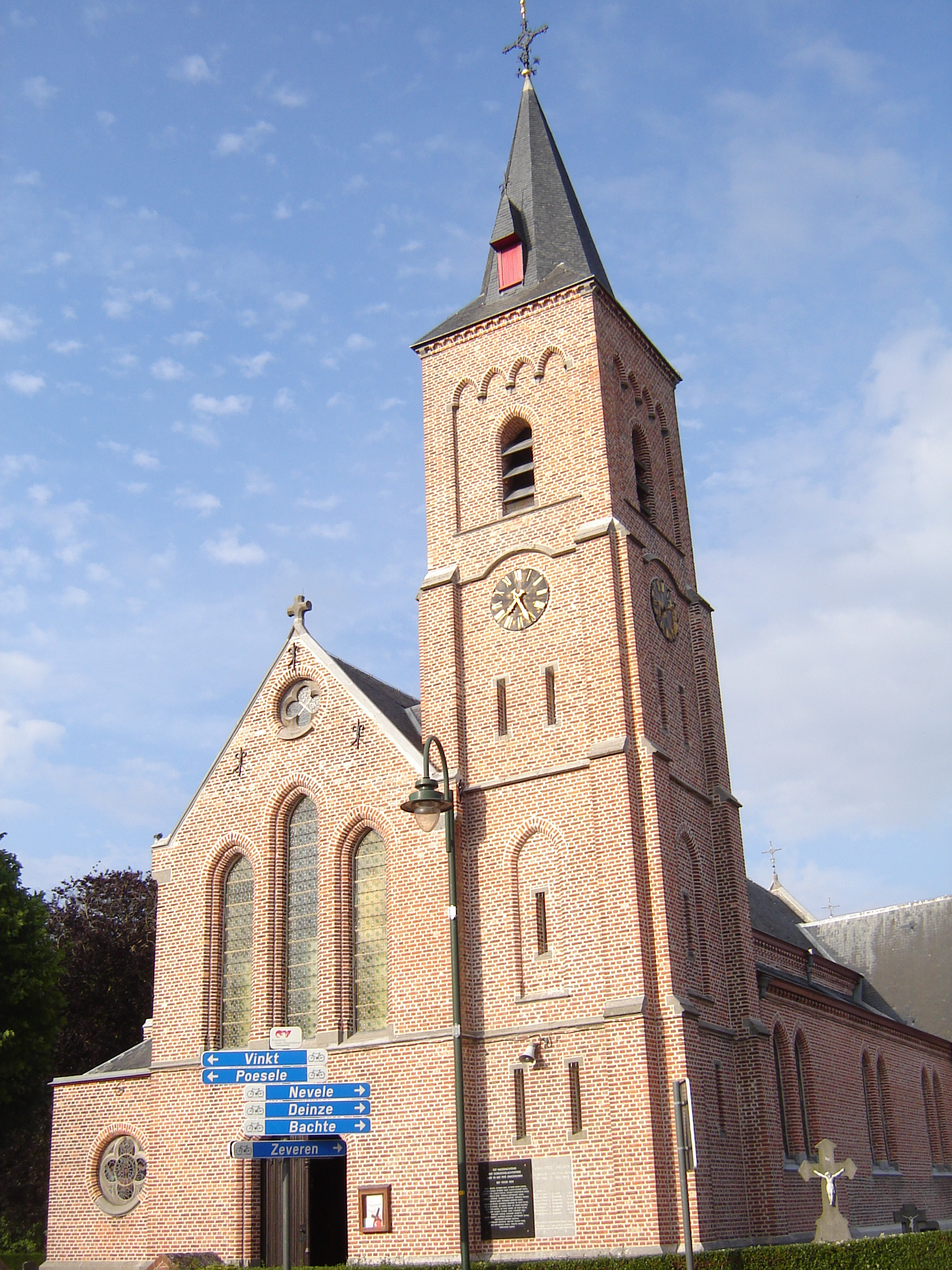 Church of Saint Nicholas in Meigem. Meigem, Deinze, East Flanders, Belgium